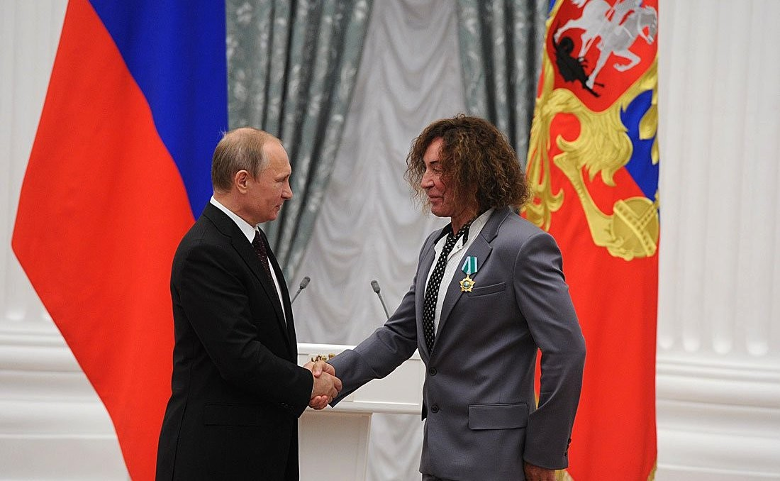 Valery Leontiev with order of Friendship